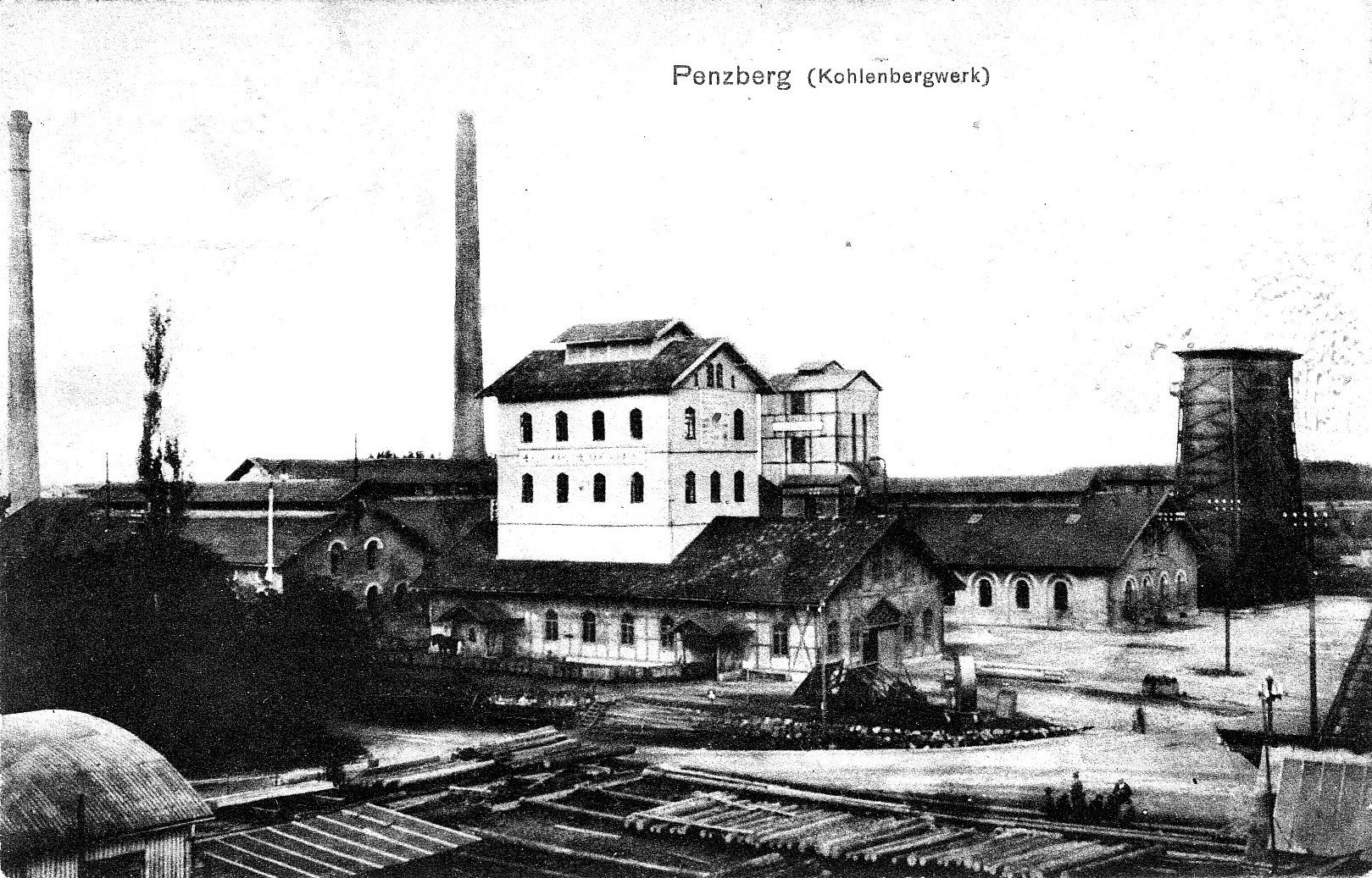 picture postcard: coal mine in Penzberg with Duke-Karl-Theodor-Shaft in the foreground and Henle-Shaft in the background